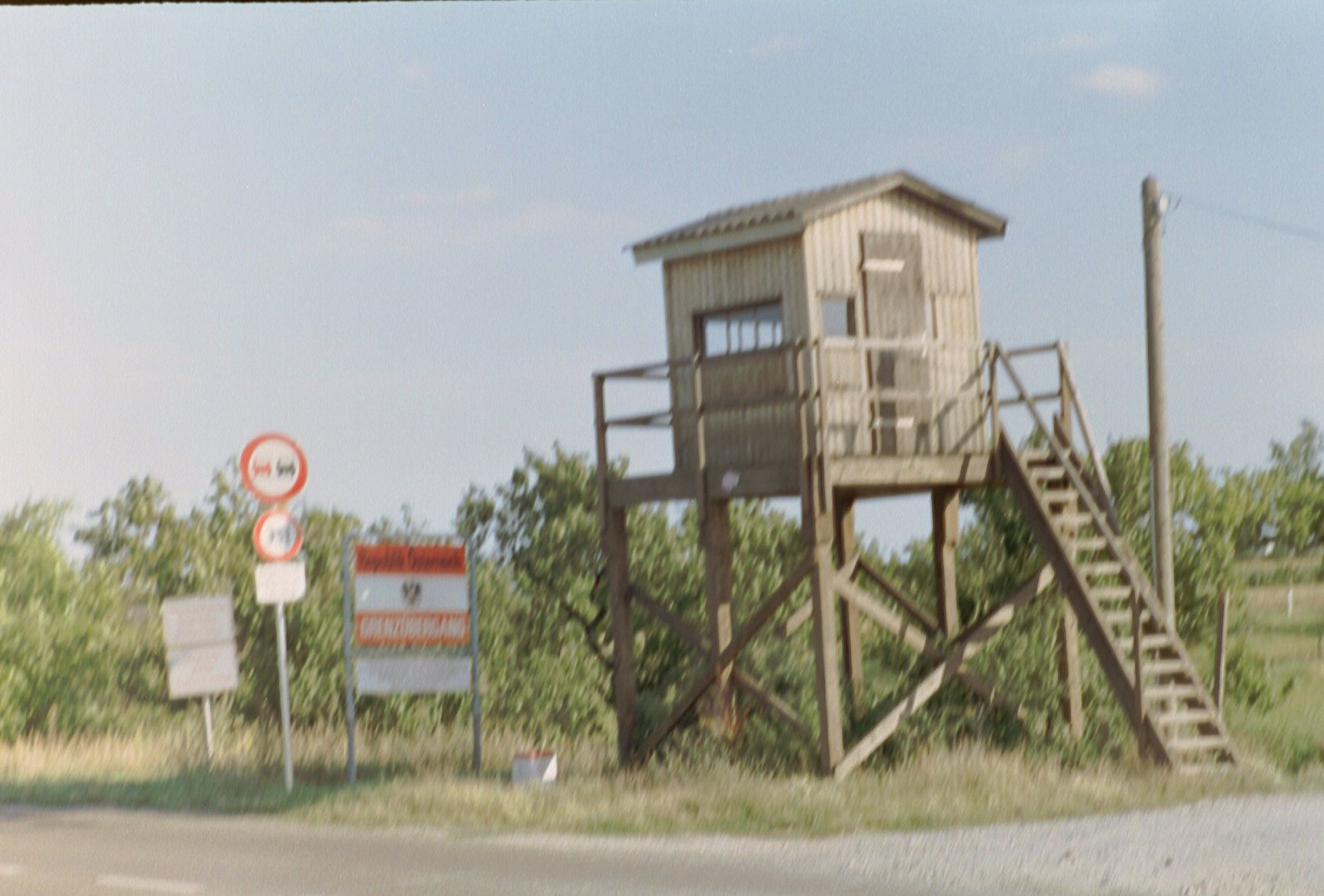 Austria-Slovakia Border Crossing at Kitsee (2001)